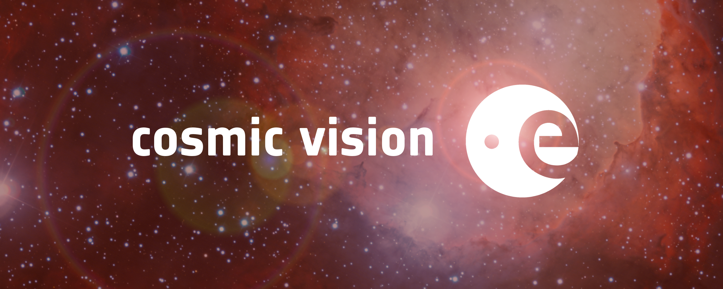 A illustrative banner made for the en.wikipedia Cosmic Vision article, emulating the Cosmic Vision website's typeface logo and visual presentation.